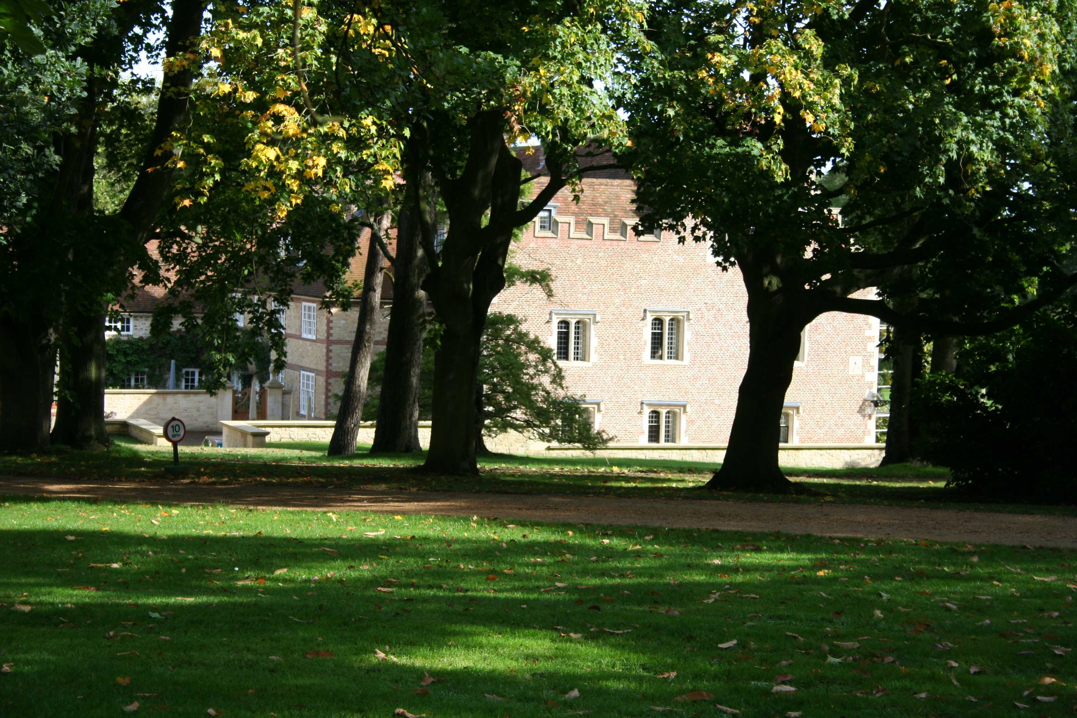 Rycote House, Oxon